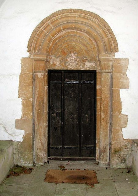 Norman north doorway of SS Peter and Paul parish church, Church Hanborough, Oxfordshire. The tympanum depicts St Peter with a lion and the Lamb of God